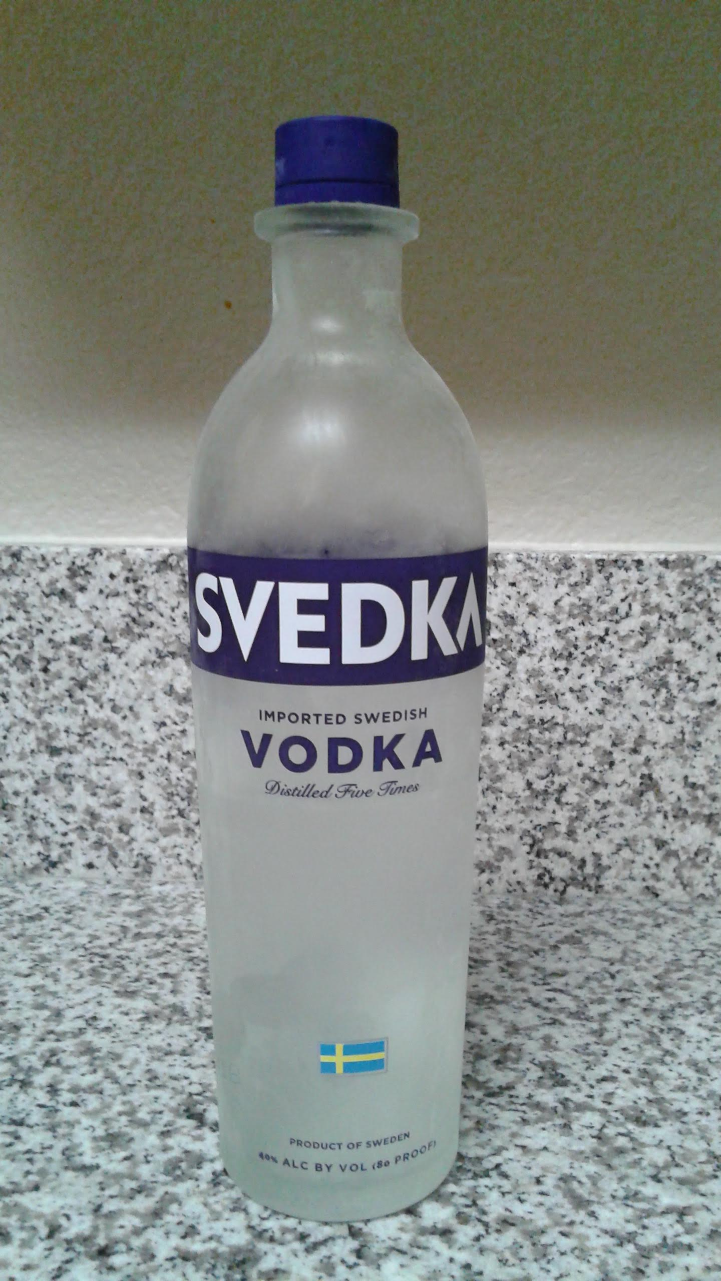 A bottle of Unflavored Svedka Vodka, partially full, on a granite countertop. Condensation is visible on the bottle.